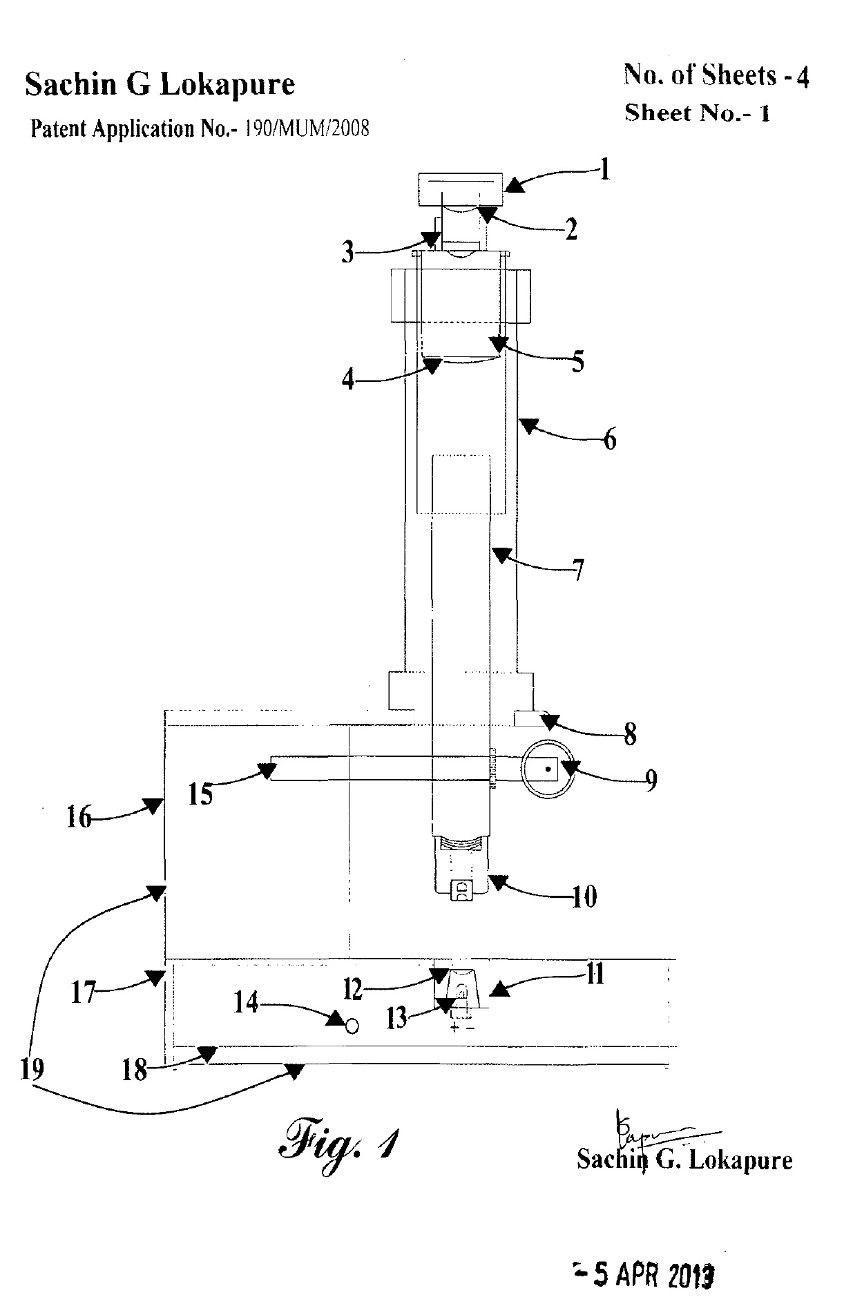 Indian Patent 289294